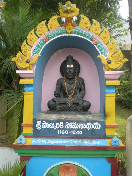 This is the photo of a very great poet in Palkurthy Somanathudu, of Palkurthy (v), Warangal Dt. Telangana. It is located at the foot steps of Narasimha swamy Temple there. i had taken this photo with my Nokia phone on 2007-Dec,3.